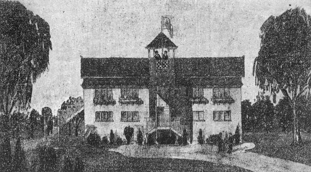 Plan of the new two storey clubhouse at Nudgee Golf Club, Brisbane, 1930.